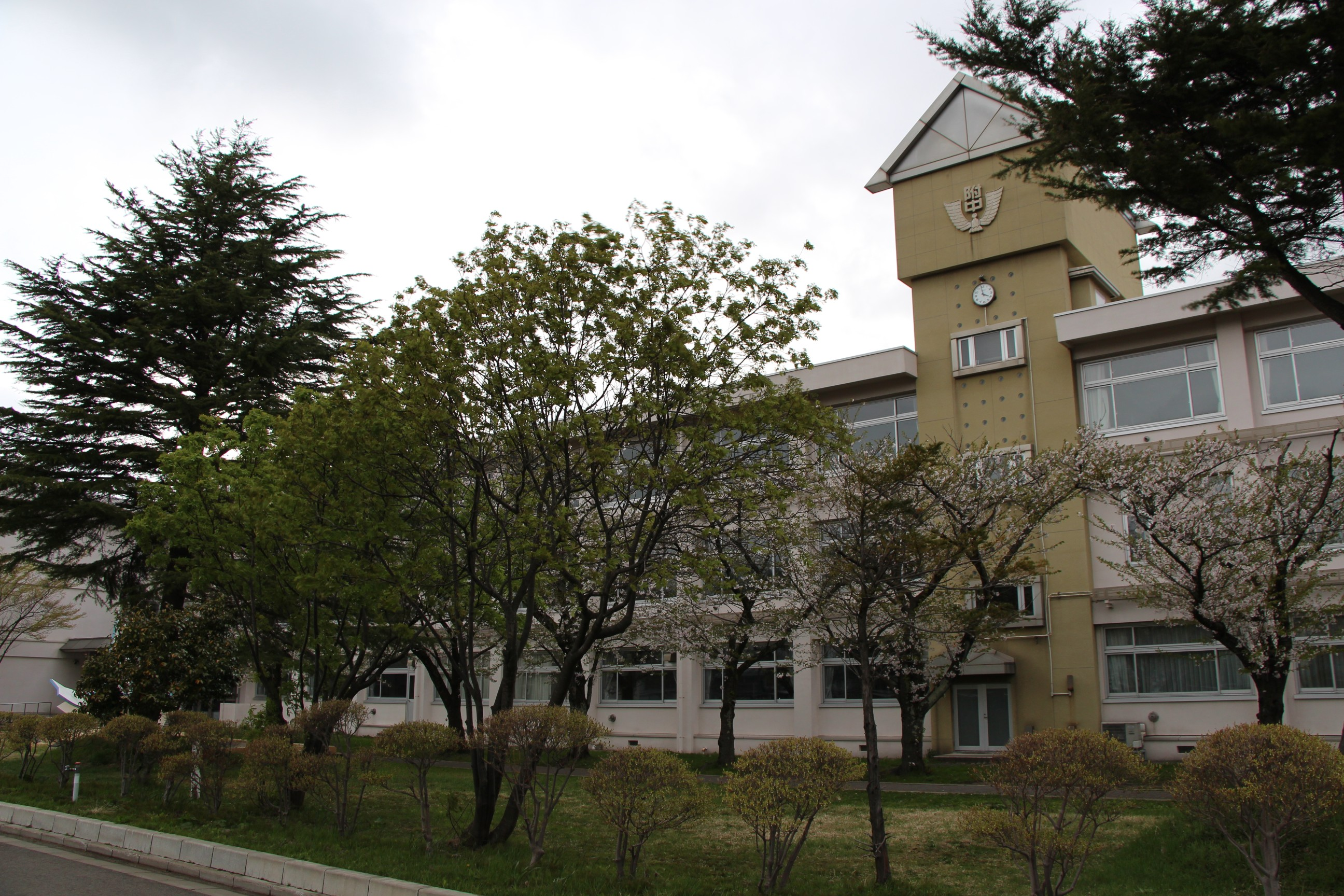 The Junior High School Attached Faculty of Education and Human Studies of Akita university. Taken on May 3,2013.